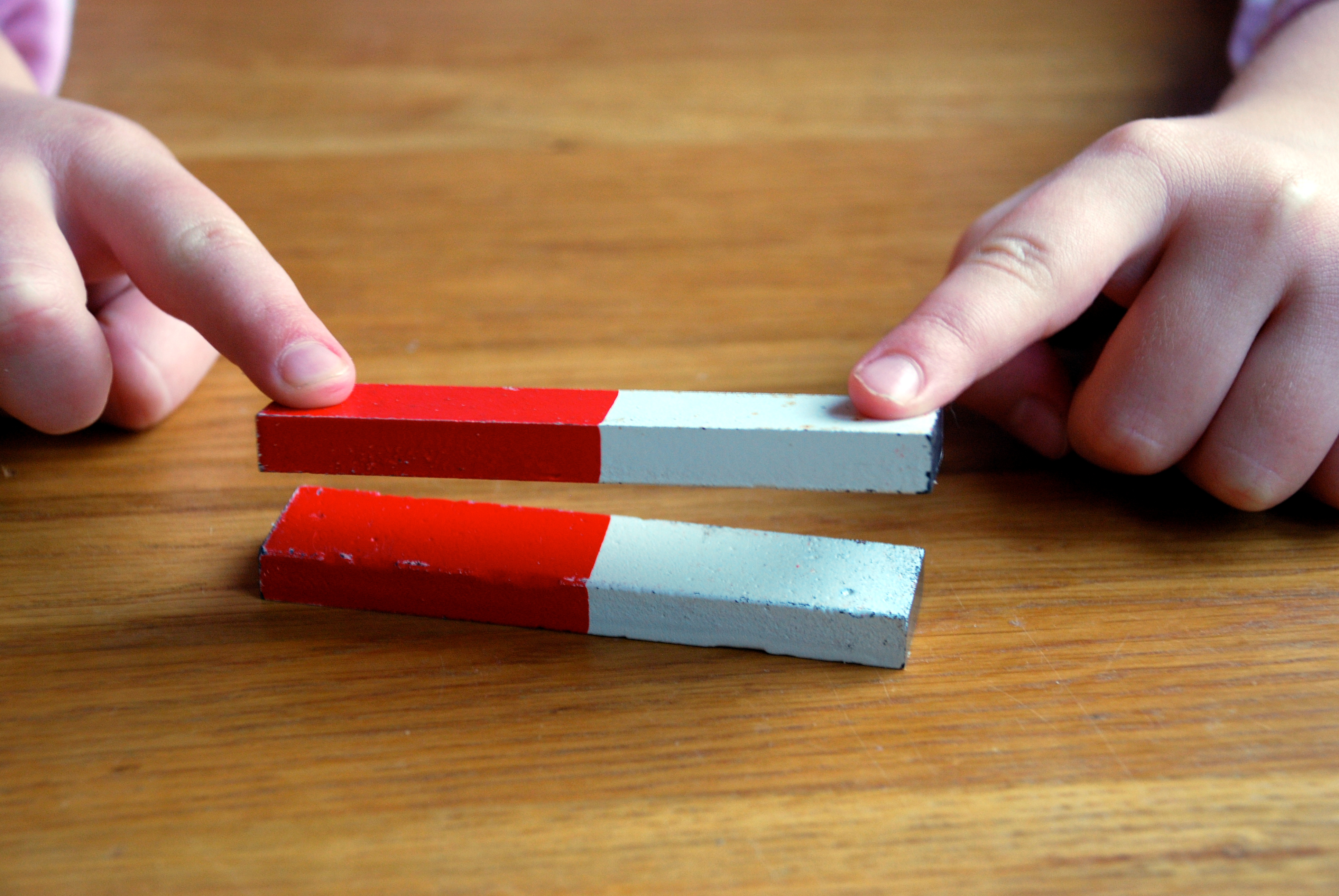 Like poles repel eachother (my daughter's hands)